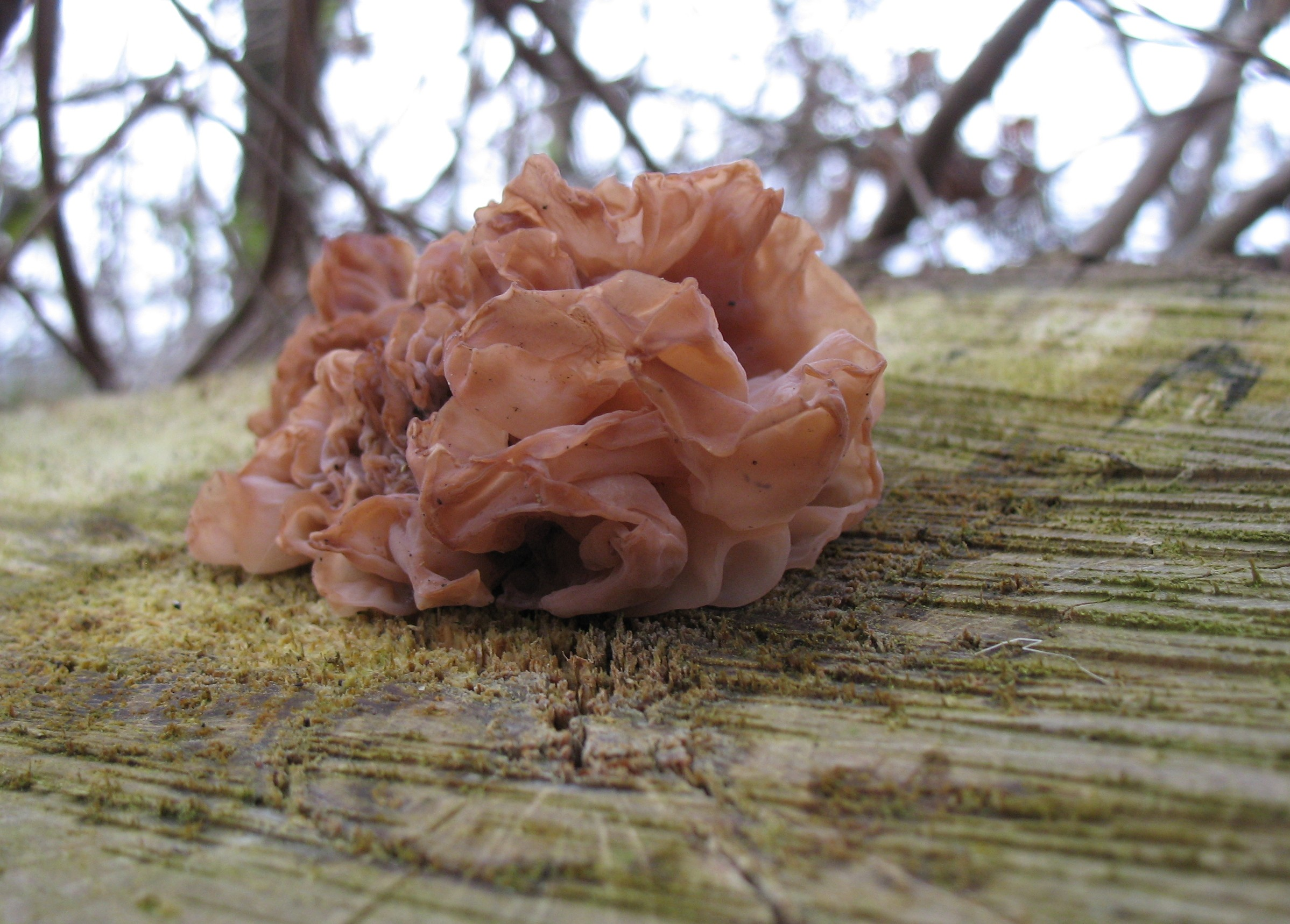 Tremella foliacea